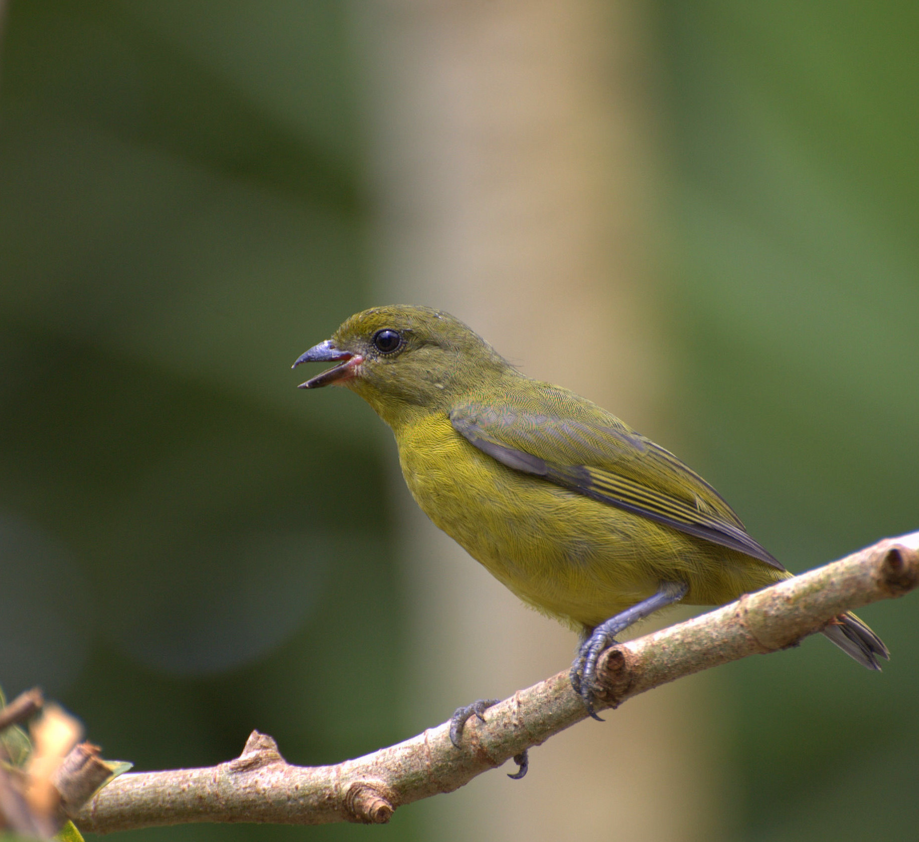 Violaceous Euphonia (Euphonia violacea). A female in Vale do Ribeira, Brazil.